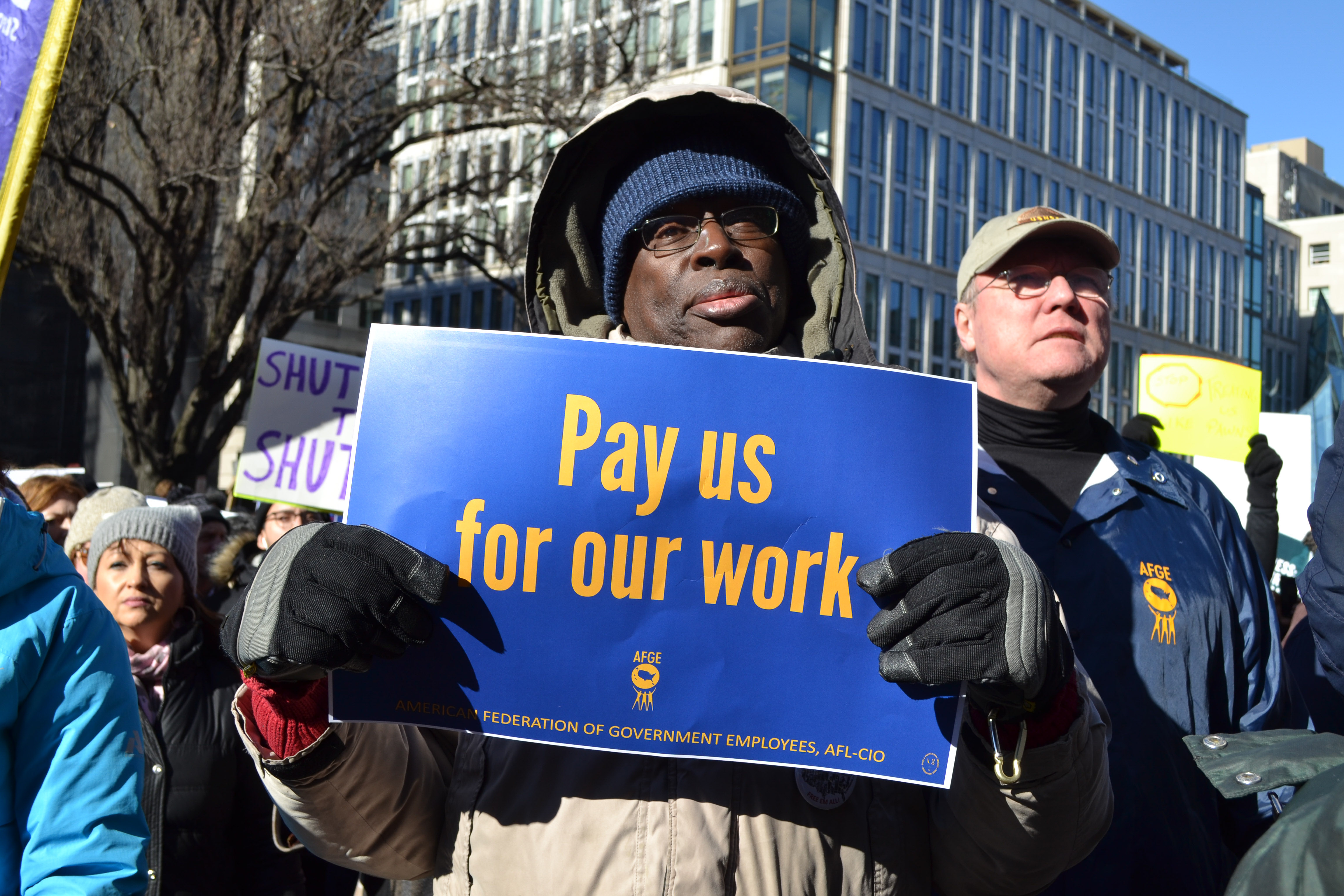 Hundreds rally at the White House for an end to the government shutdown. Protest of United States federal government shutdown of 2018–2019. Hundreds rally at the White House for an end to the government shutdown.